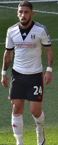 08/03/14 Cardiff City v Fulham, Premier League, Cardiff City Stadium, Cardiff, Wales